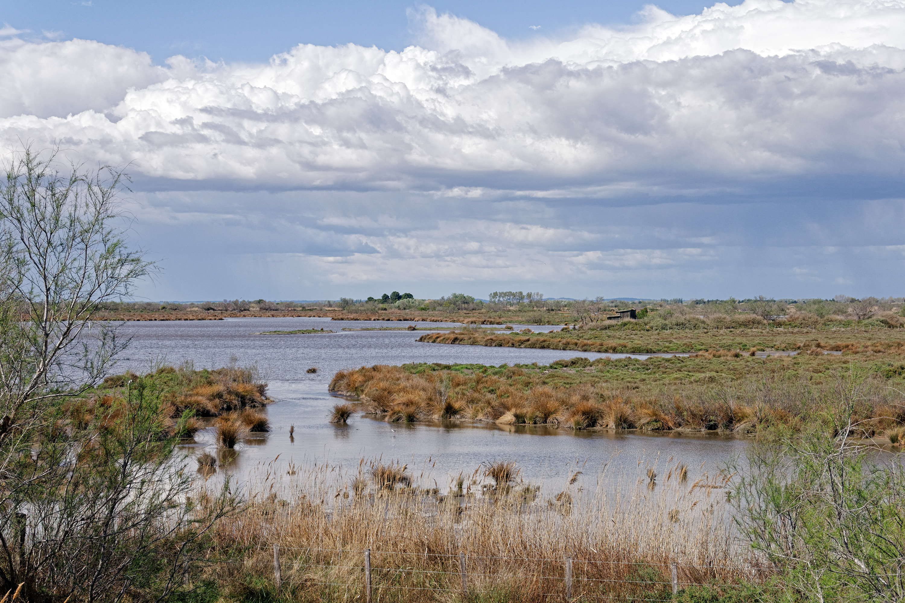 Typical Camargue landscape near the Pont de Gau bird sanctuary